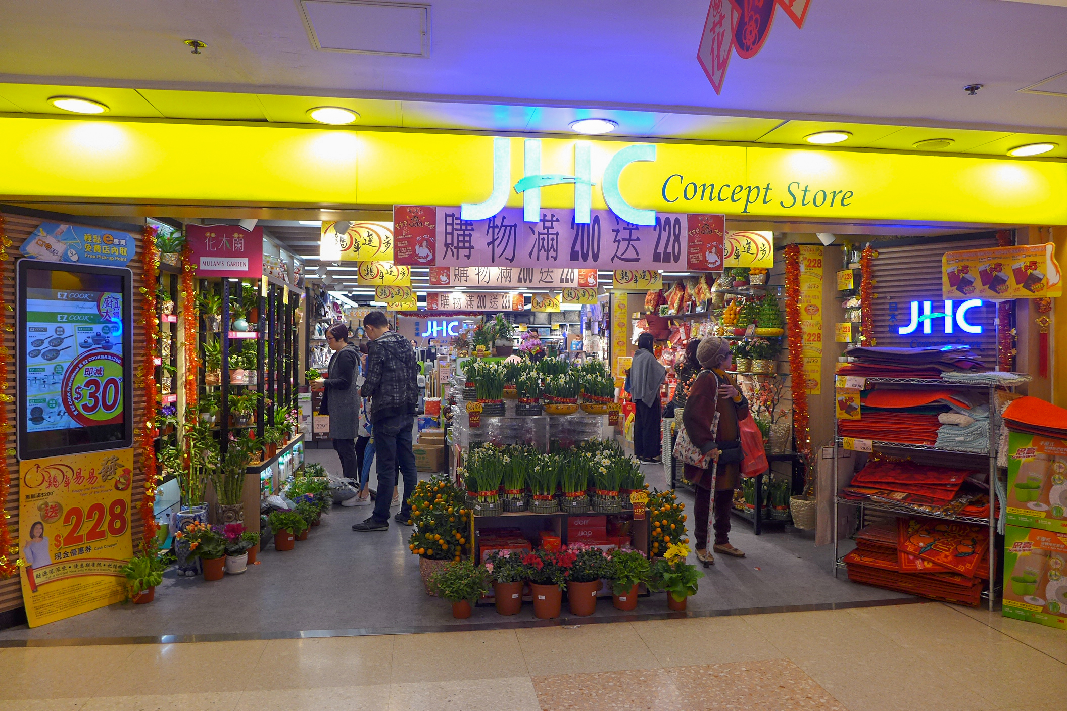 JHC Concept store in Fitfort